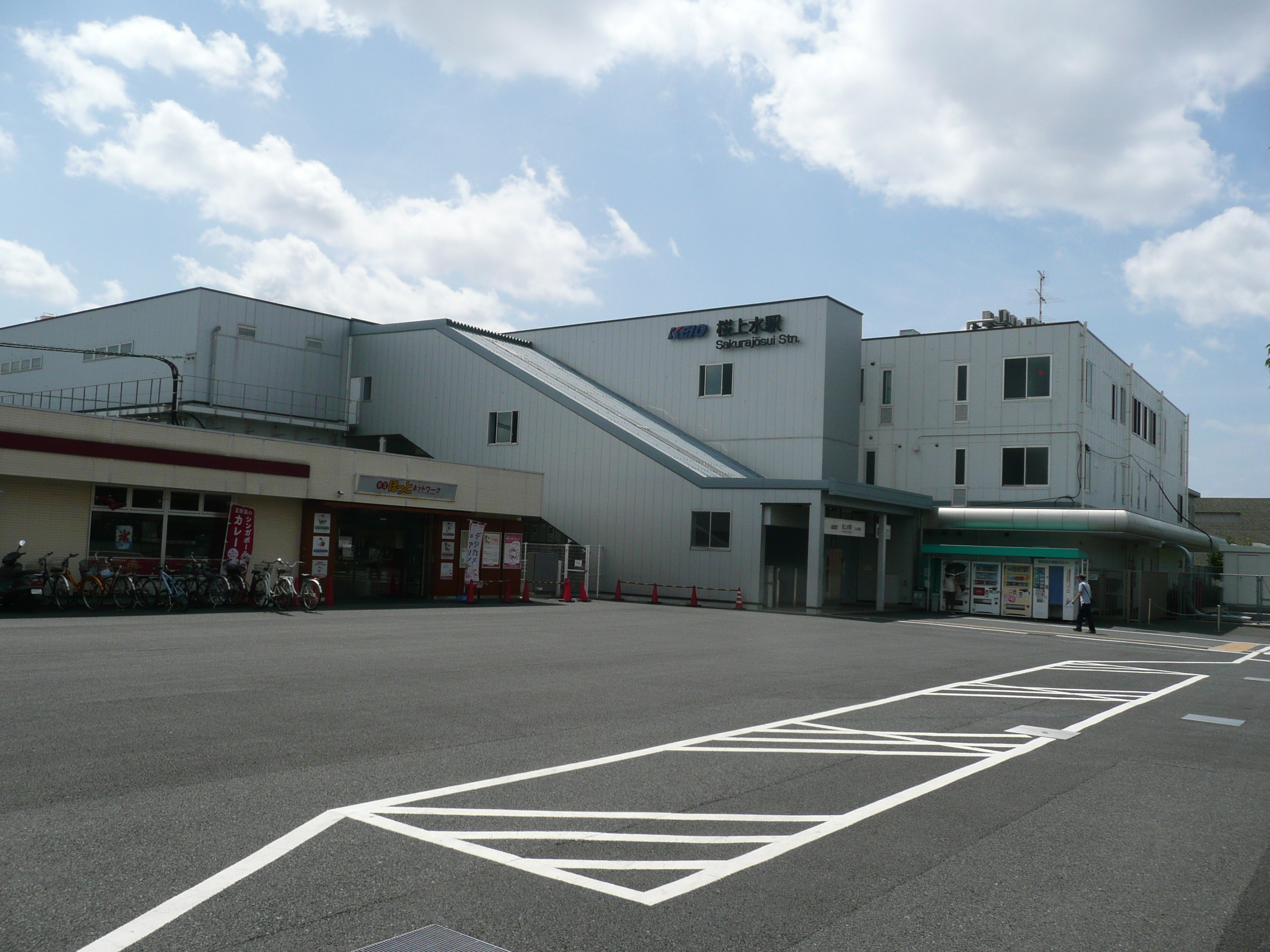 North Entrance of Sakurajōsui Station